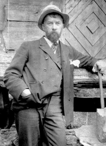 Louis Moe at his beloved Juvlandsæter ca 1910